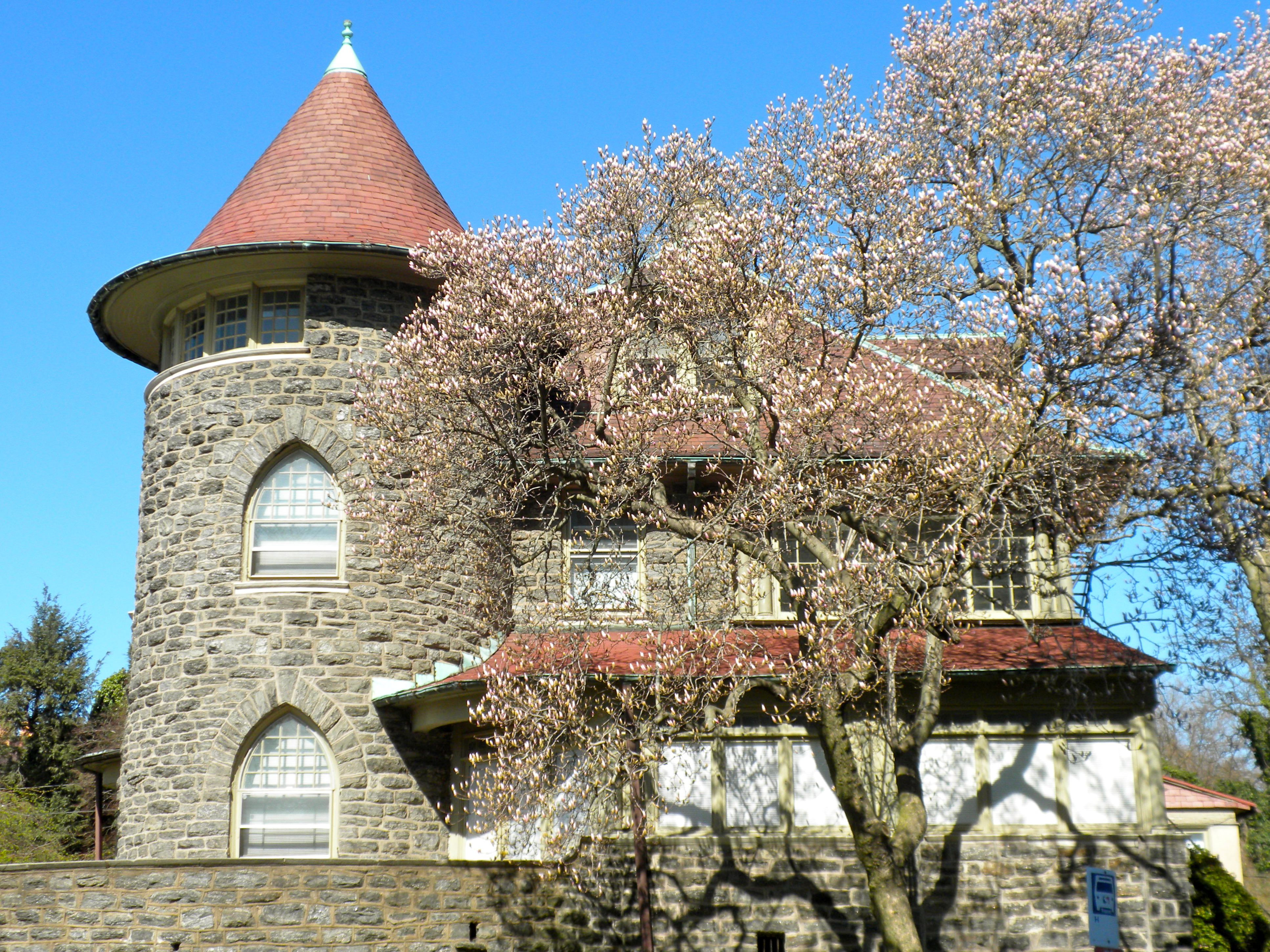 Edward B. Seymour House on NRHP since November 5, 1987. At 260 West Johnson Street in Mount Airy or Germantown neighborhood of Philadelphia